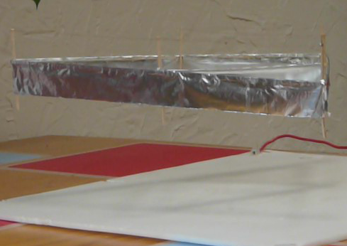 Picture of a flying "Lifter v2", which uses the Biefeld–Brown effect.